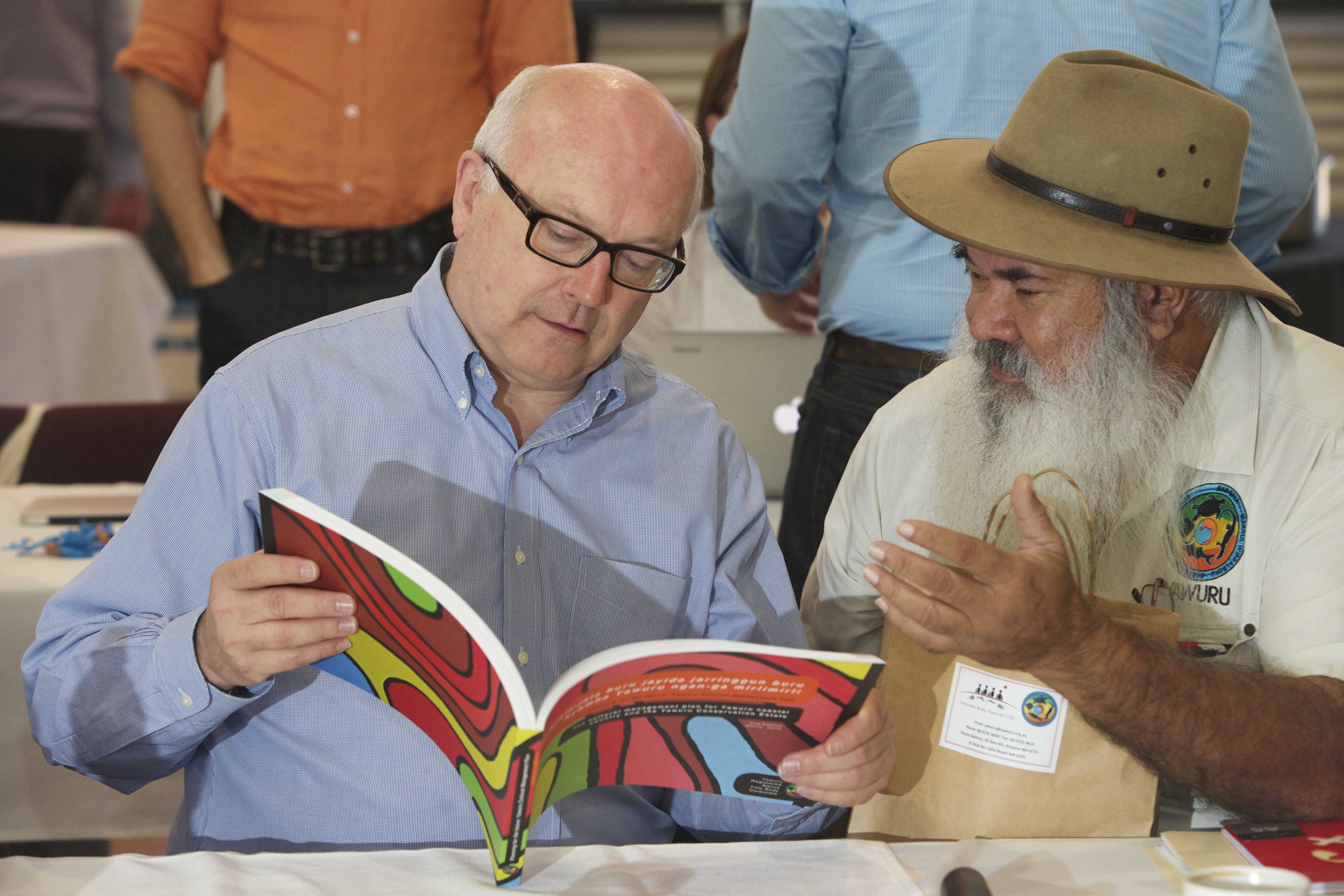 George Brandis and Pat Dodson at the 2015 Indigenous Leaders Roundtable Broome.